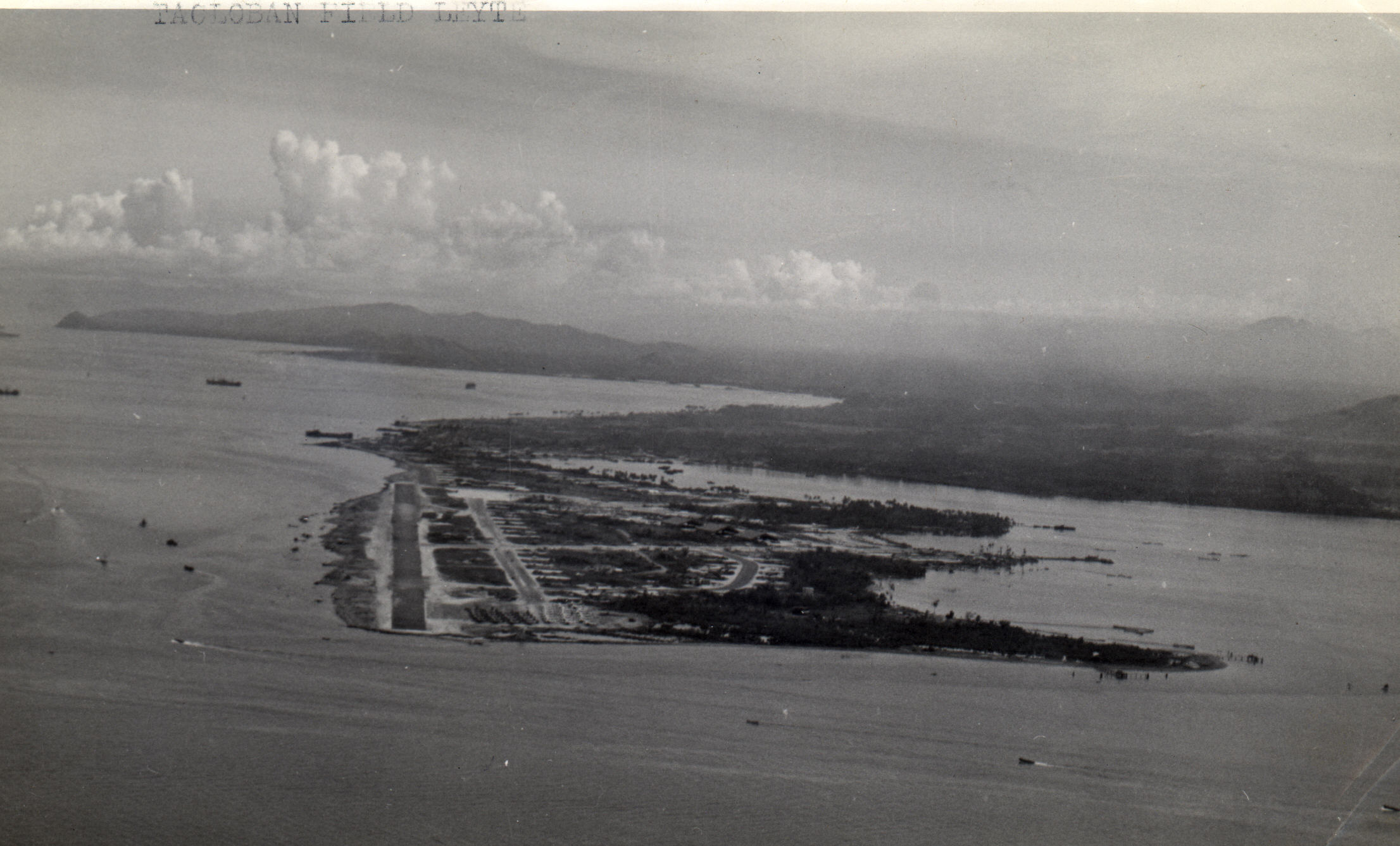 Aerial view of Tacloban Airfield, circa in late 1944.